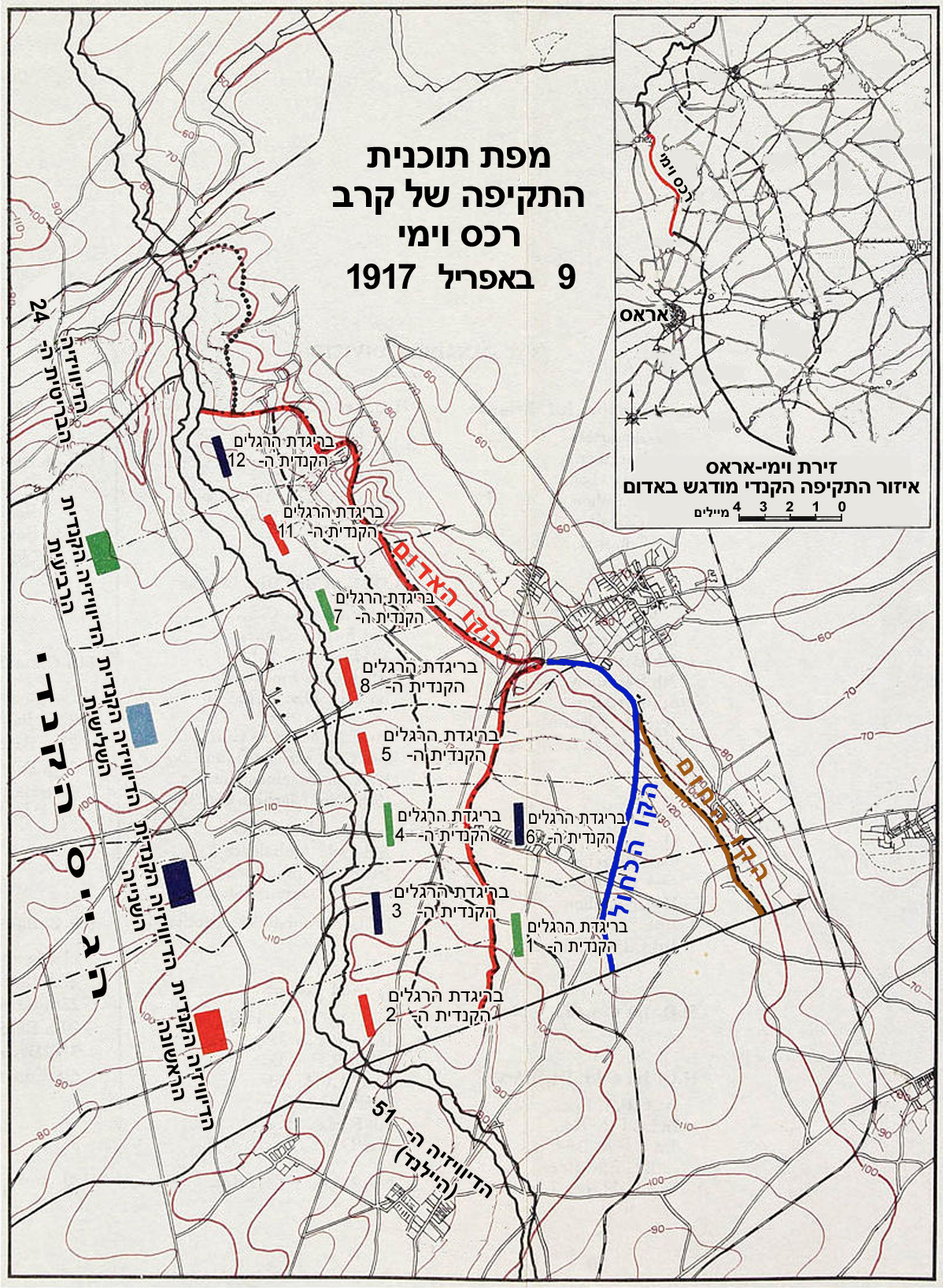 Disposition of Canadian Corps at Zero Hour, 9th April, 1917 Scale [1:54 000]